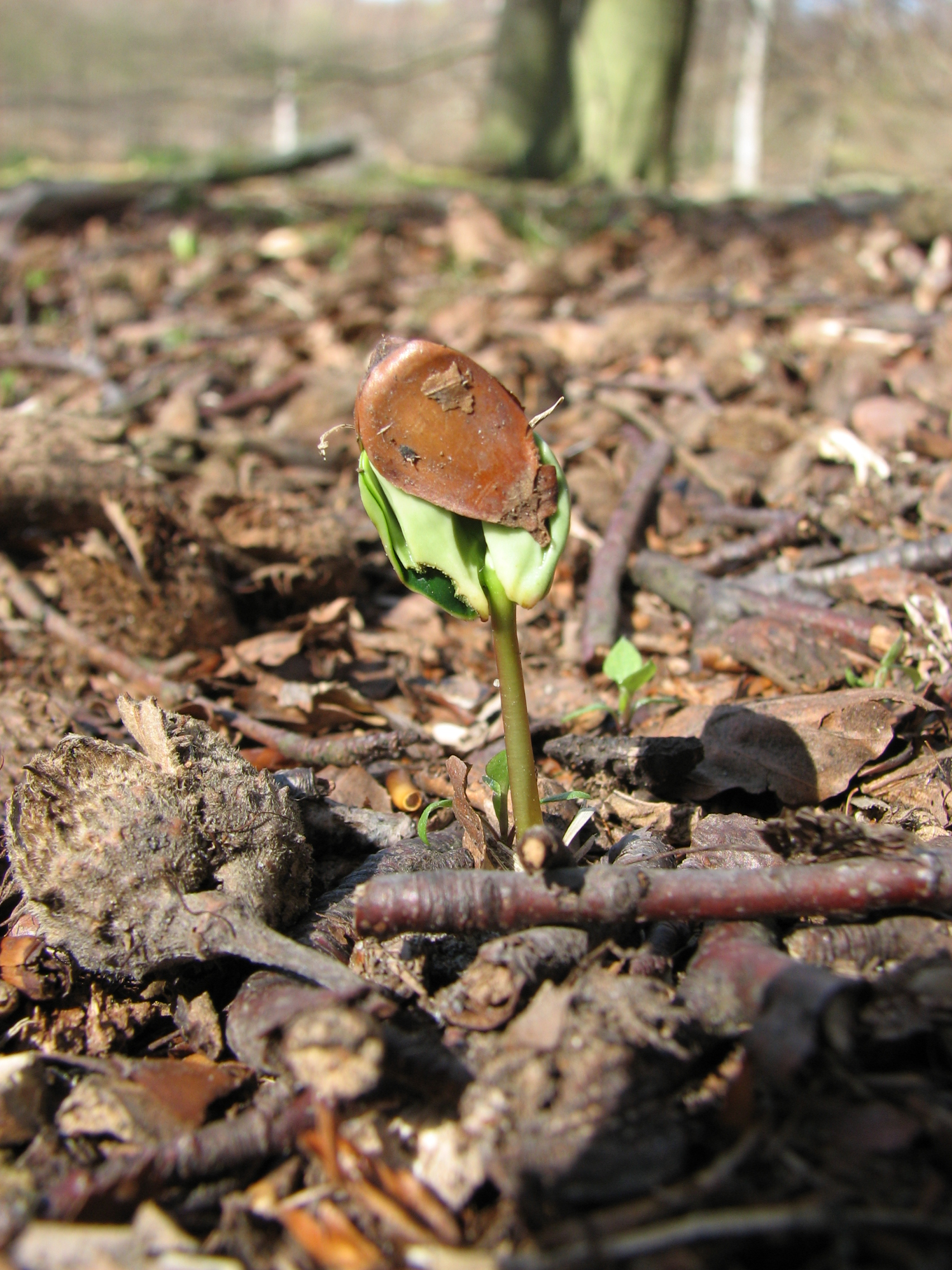 Fagus sylvatica seedling